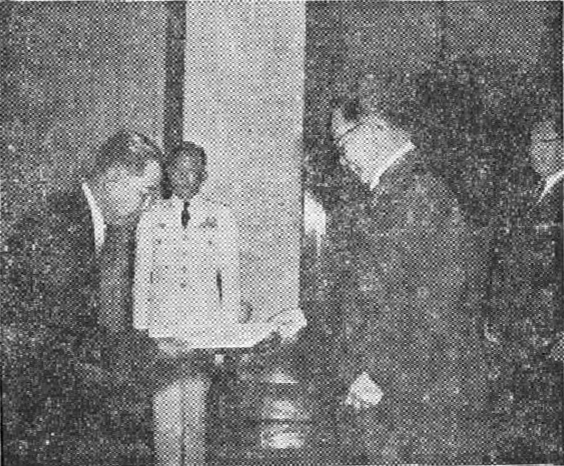 Chan Angsuchote, newly appointed Ambassador of Thailand to Korea, presented his credentials to President Yun Bo-seon at the Blue House (Cheongwadae) on 10 am, 24 August. Attending the ceremony were Park Chung-hee, Chairman of the Supreme Council for National Reconstruction, and Song Yo-chan, Head of cabinet.